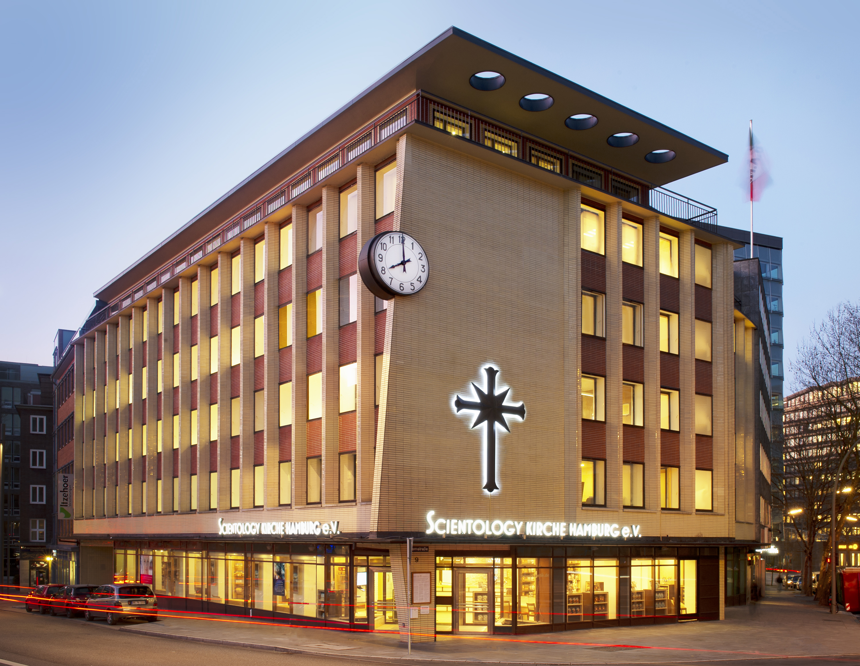 The Church of Scientology Hamburg stands at the historic birthplace of Hamburg in a landmark square of renowned churches at the spiritual heart of the old city. On 21 January 2012 the seven-story building was newly transformed into an "Ideal Organization" to provide for all Scientology services and further serve as a meeting ground for people of all faiths.